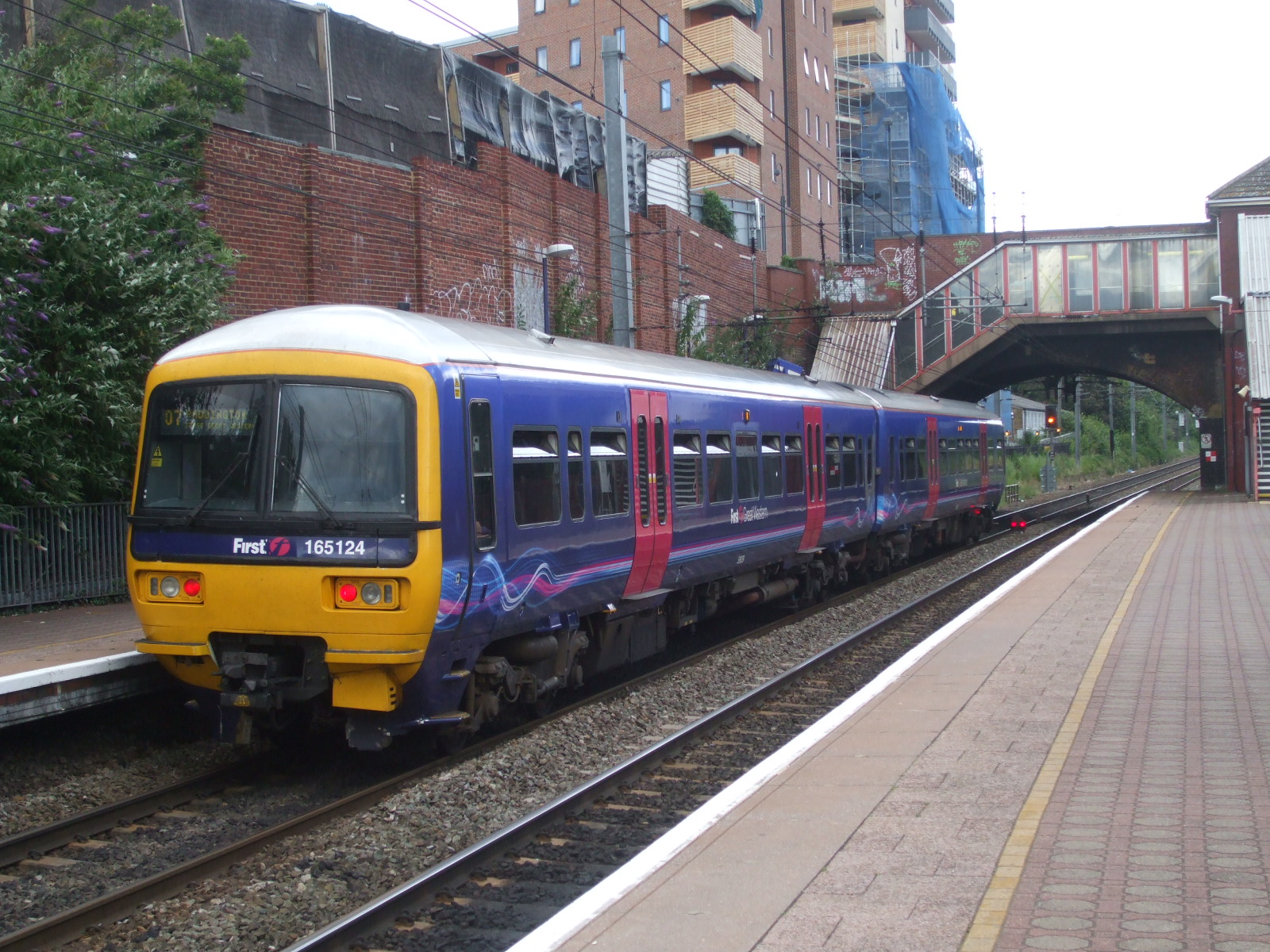 Class 165 DMU 165124 at West Ealing station on a First Great Western Greenford to Paddington service